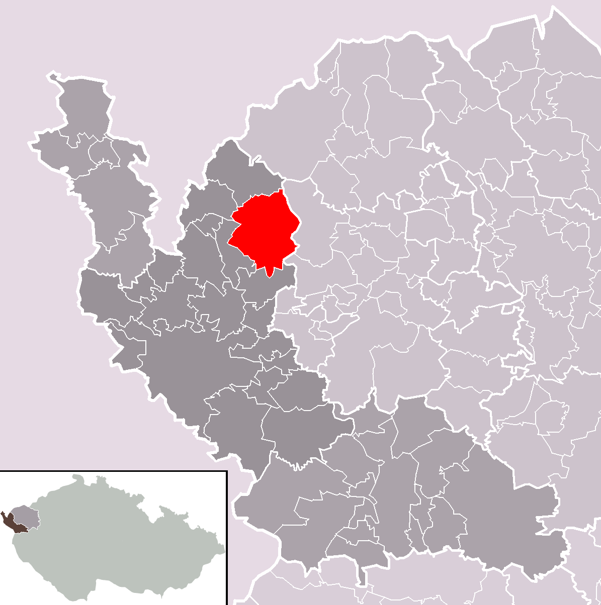 Location of Nový Kostel municipality within Cheb District and administrative area of Cheb as a Municipality with Extended Competence.